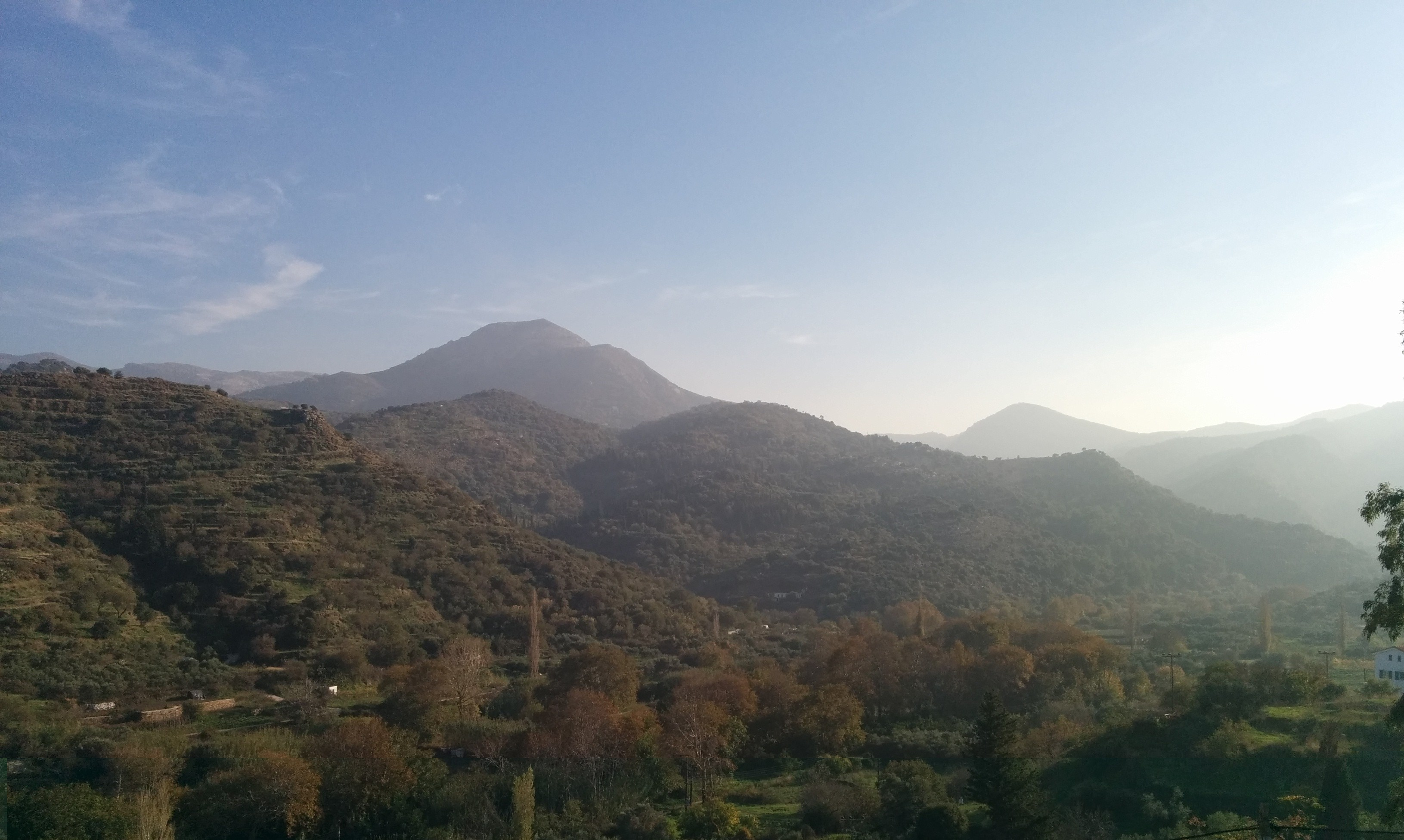 View of mountain range from Kampos, Ikaria - Greece